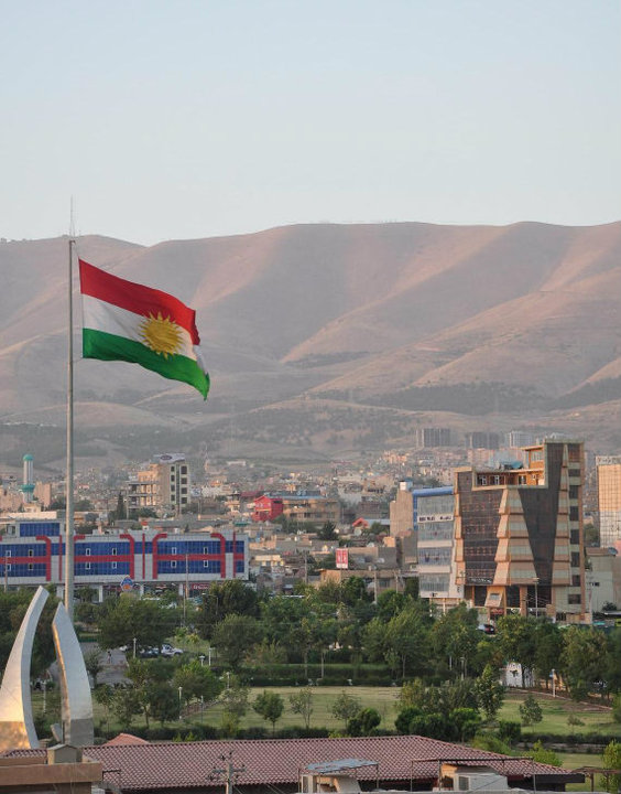 Kurdistan flag in Azadi park, Slemani